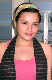 Yasmien Kurdi at the Iglesia ni Cristo compound in Laoag City, Ilocos Norte on December 19, 2011.